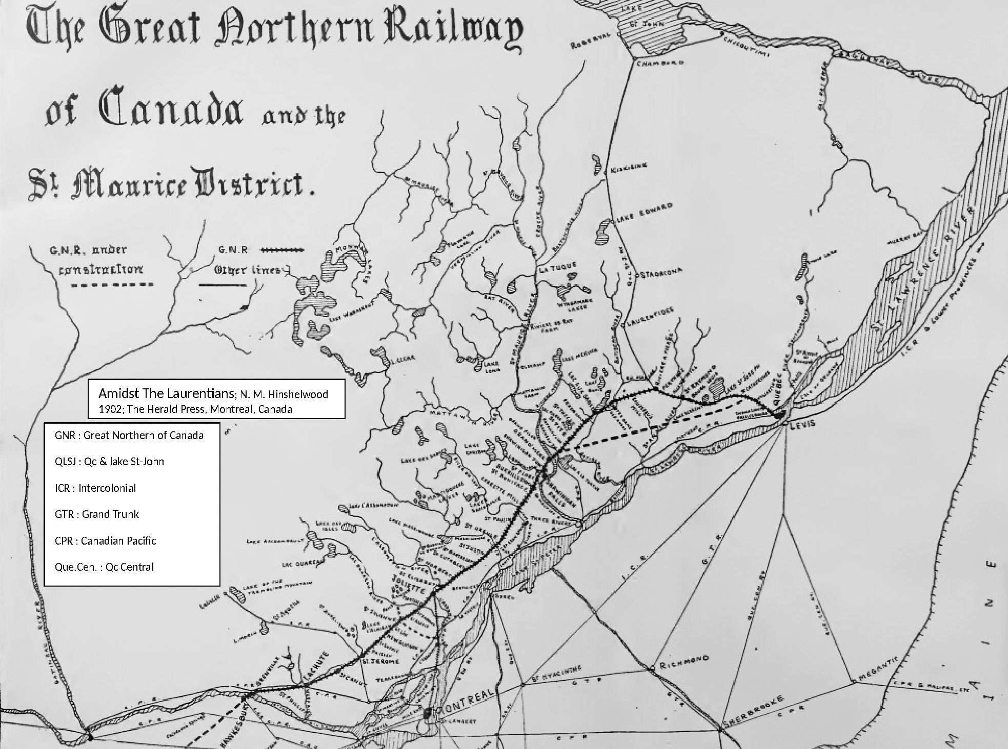 Map from 1902 of the Great Northern Railway of Canada between Hawkesbury and Rivière-à-Pierre, then Québec via the Quebec & Lake St-John Railway. Path: Hawkesbury; Lachute; St-Jérome; New Glasgow; Ste-Julienne; Montcalm; Joliette; St-Justin; St-Ursule; St-Paulin; Charette’s Mill; St-Boniface; St-Flore; Shawinigan; Grand-Mère; Garneau Junction; St-Tite; Lac-aux-Sables; Rivière-à-Pierre; St-Raymond; Bourg Louis; lac Sergent; lac St-Joseph; Ste-Catherine; St-Gabriel (Shannon); Valcartier; Indian Lorette; Charlesbourg; terminus on St-Andrew street (Parent square) near Great Northern’s grain elevators no 1 & no 2. Note the connection to Montreal line (Ste-Catherine street; Maisonneuve; Pte aux Trembles; Charlemagne; l’Assomption; l’Épiphanie; Joliette), the connection to CPR Piles branch at Garneau Junction and the connection to QLSJR at Riv.-à-Pierre. The projected line from Garneau to Quebec, will be completed by the CNoR in 1908, but via St-Stanislas & Donacona to Hedley Junction (QLSJR) north of St-Charles river.